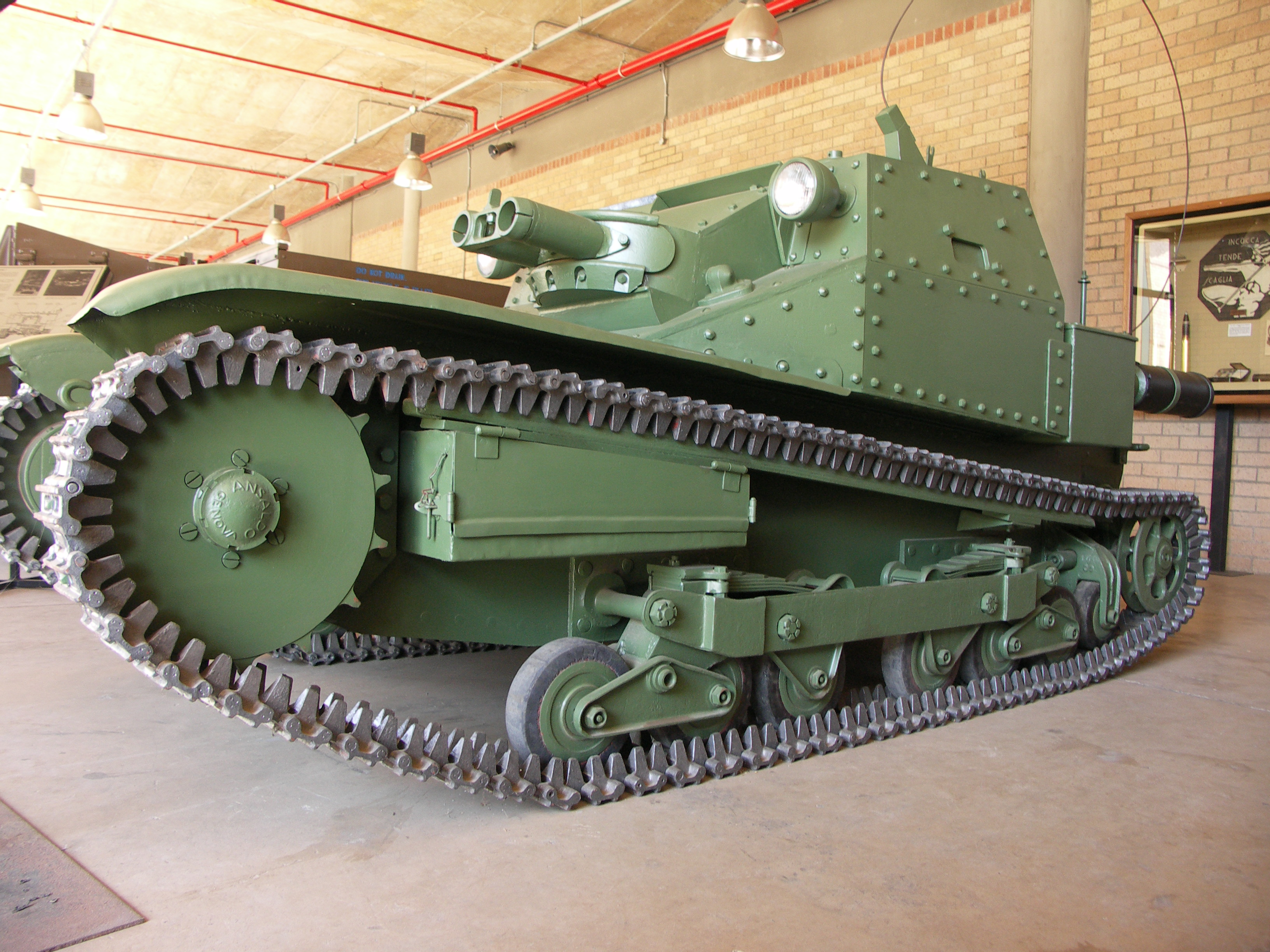 An Italian Carro Legerro 3/35 (L3/35) Light Tank Photo taken at the South African Museum of Military History